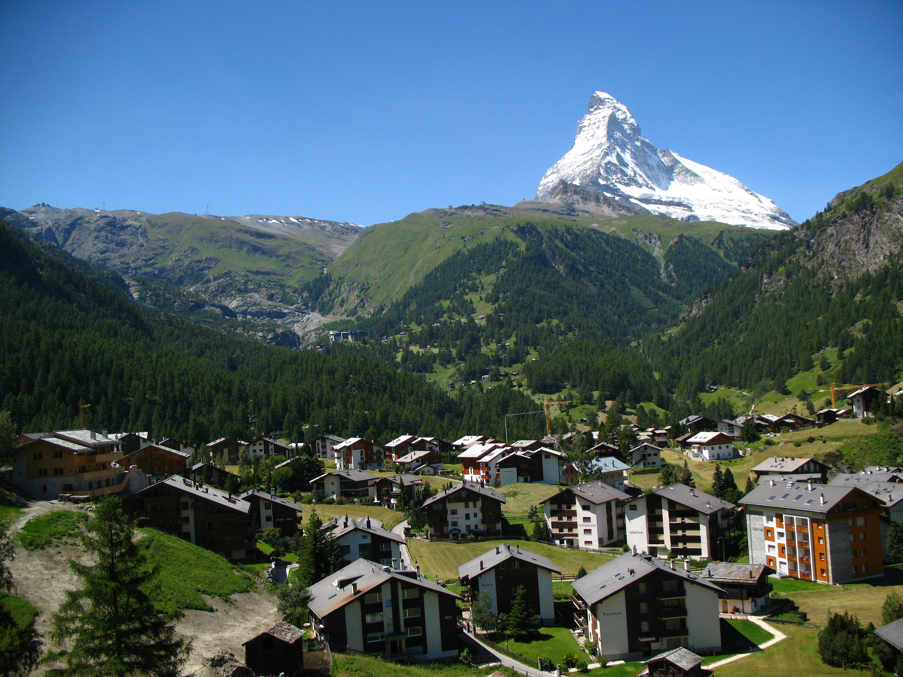 Matterhorn viewed from Gornergratbahn, Winkelmatten / Zermatt, Switzerland